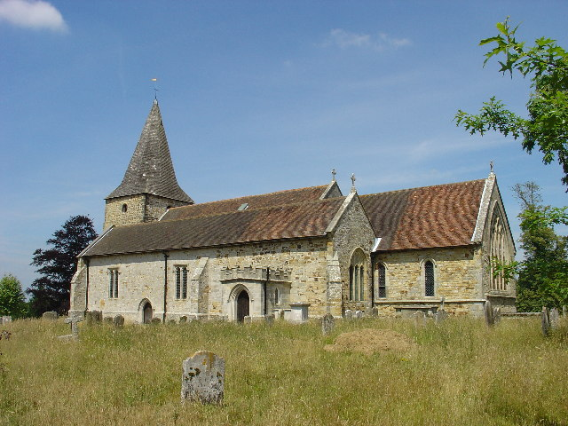 St Margaret The Queen Church, Buxted Park, Buxted, East Sussex